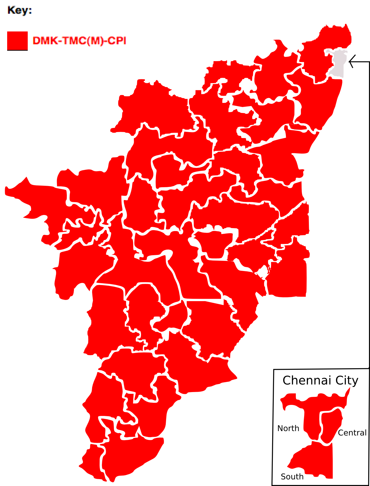 1996 Lok Sabha Election map for Tamil Nadu. Map is based on ECI drawn map. Results are based on ECI website.